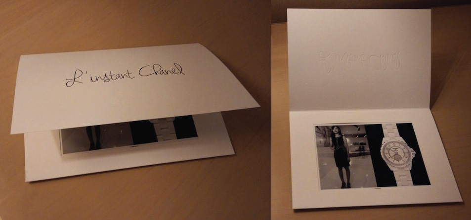 Giving out photos in marketing events is an efficient approach to drive user engagements and raise brand awareness